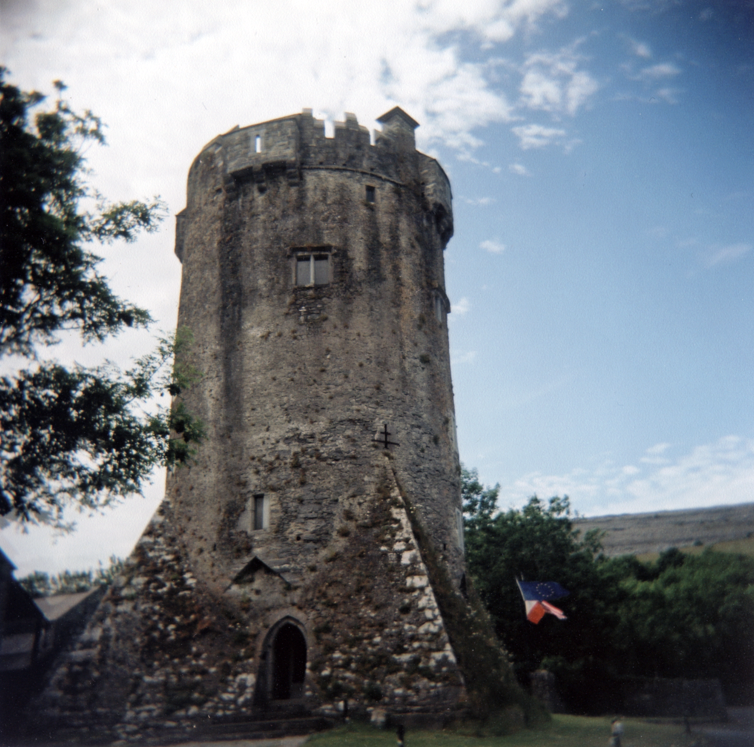 Like a rocket on its launch-pad, this unusual sixteenth century tower house takes the form of a cylinder impaled upon a pyramid. The whole base of the wall between the four boldly projecting spurs is commanded by shotholes ingeniously placed in the apex of pointed notches at the fusion of the cylinder and pyramid. One of these notches, or ghost-gables, lies over the door which is also commanded by one of four machicolations projecting from the parapet. Internally, the tower has five storeys with dome vaults over the ground and third stories, both of which have well-preserved impressions of wickerwork matting. The hall on the fourth story has mullioned windows with the spiral stair projecting into the room. The top floor, originally a bed chamber, has now been incorrectly restored as a gallery, presumably so that visitors can admire the new conical oak roof.